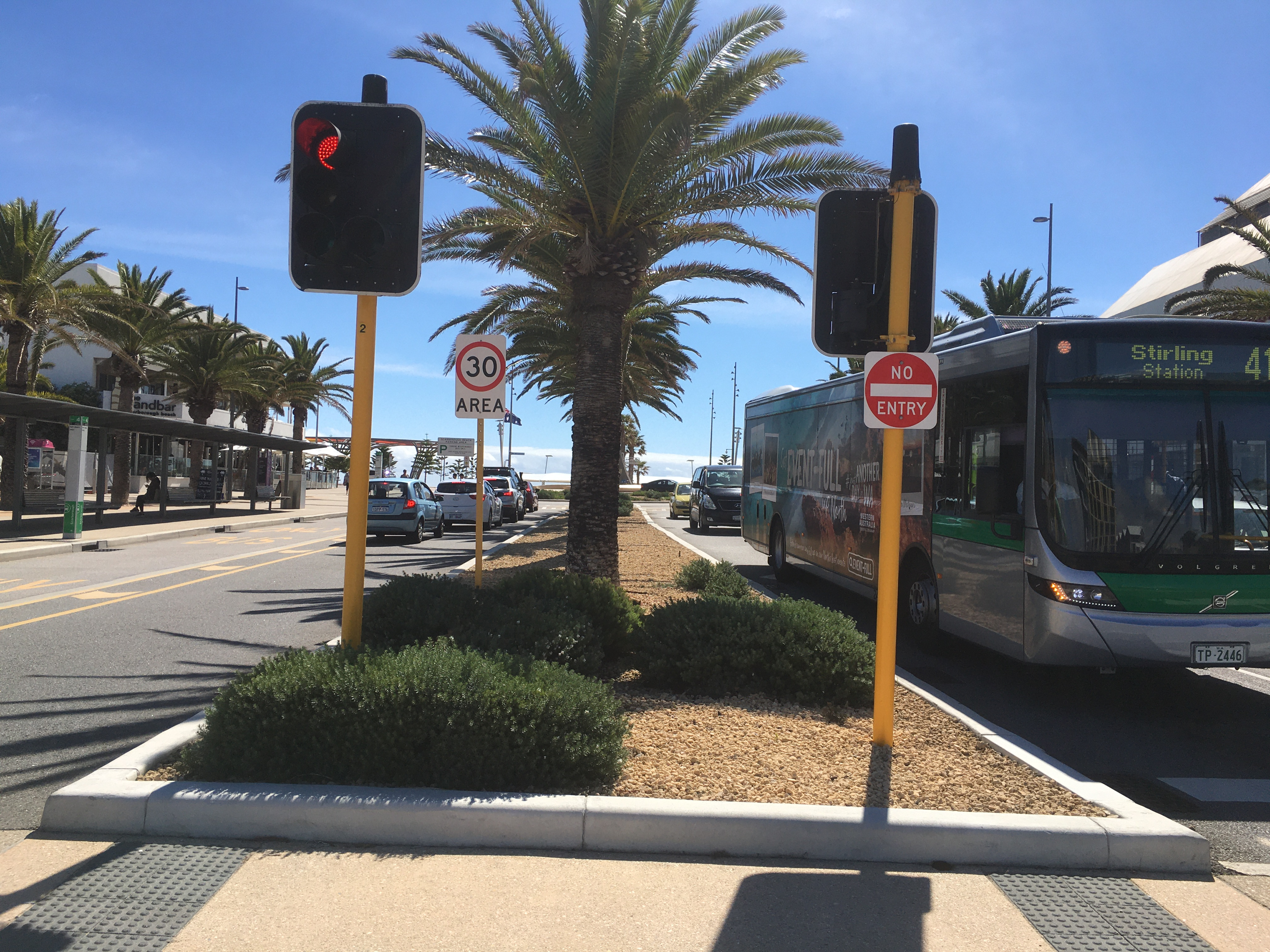 Scarborough Beach Bus Station looking West with TP2446 bus